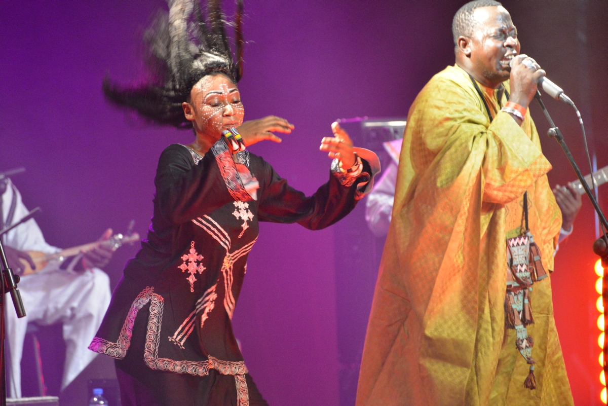 A concert of Mamar Kassey in Holland